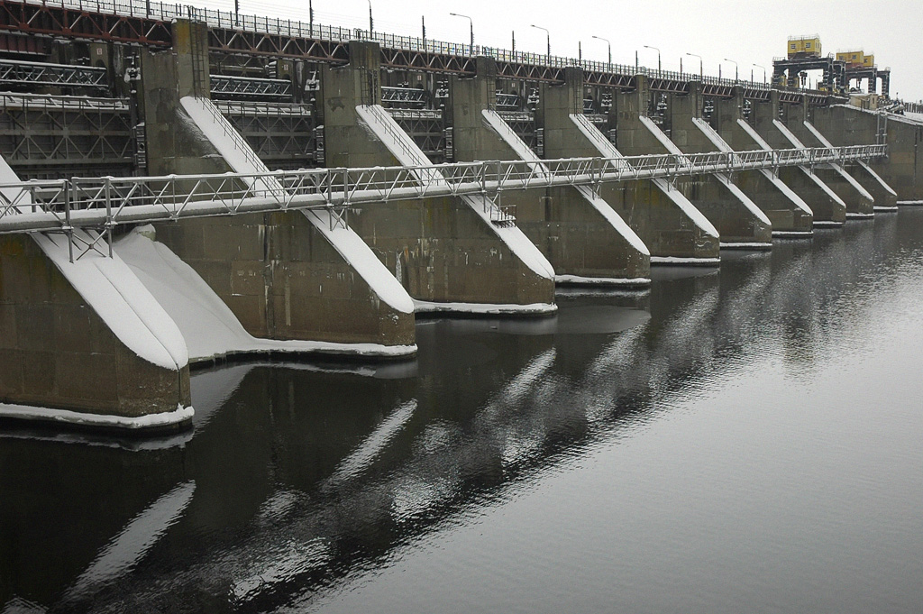 “Hydro”. Nizhny Novgorod hydro-electric power station